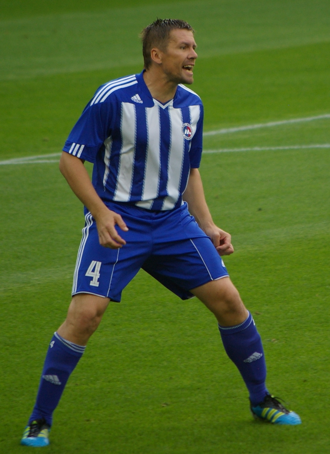 Liepajas Metalurgs